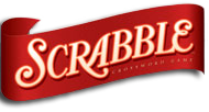 The text logo for the board game Scrabble in the United States